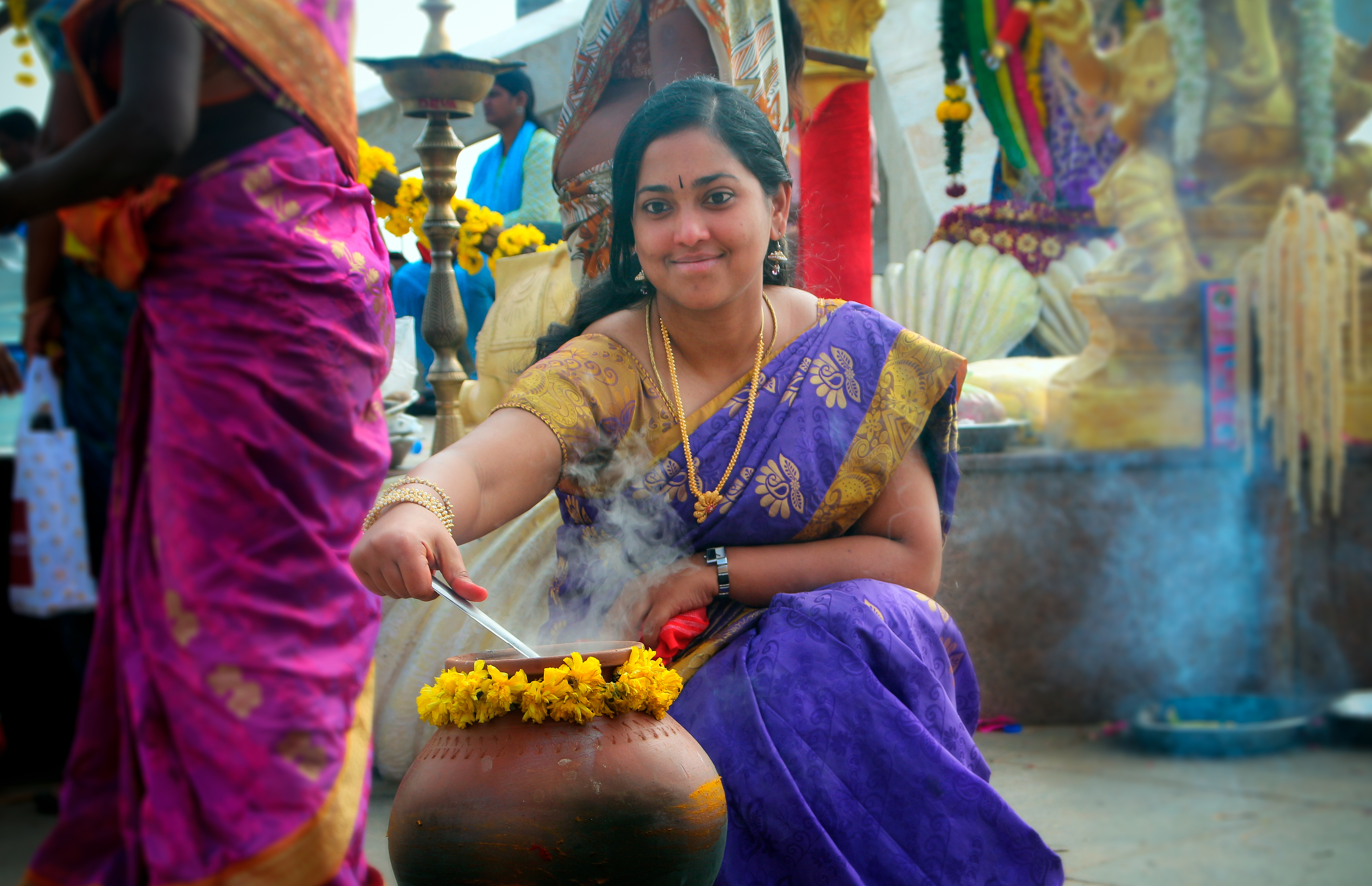 "Women celebrating Pongal festival in India". Prepared in homes and at Hindu temples, it is shared with family, friends, visitors and all pilgrims. Pongal, l'une des fêtes les plus importantes du Tamil Nadu, est une sorte d'équivalent de Thanksgiving. La population remercie la nature pour les récoltes fructueuses qu'elle a permis. Les maisons sont décorées, on achète de nouveaux vêtements et les femmes préparent des plats traditionnels. Canon EOS 100D+Sigma 17-70 F2.8 HSM.